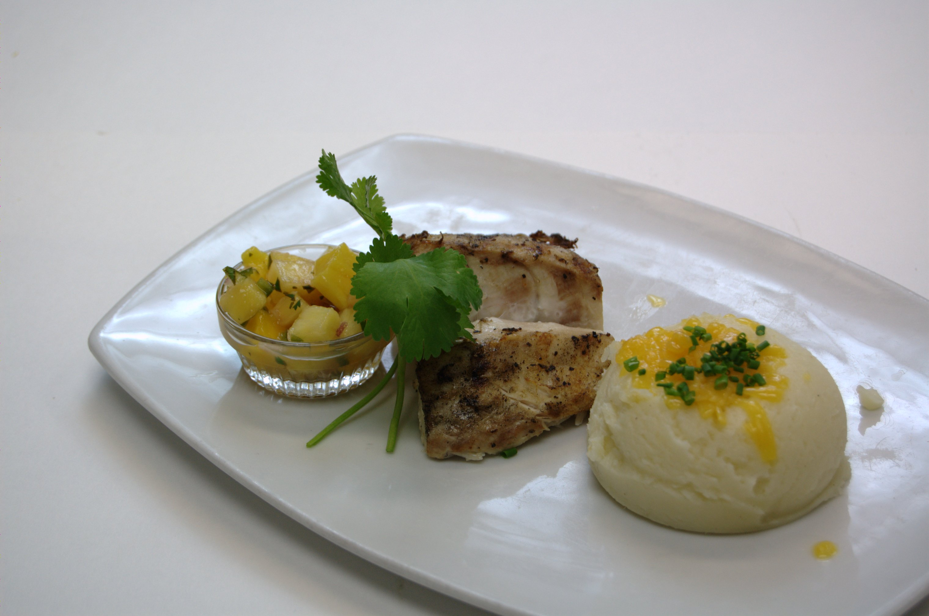 Grilled Mahi-Mahi with mango pineapple salsa and mashed potatoes topped with cheddar cheese. Garnished with cilantro sprig. Dish courtesy of The Boathouse at Sunday Park